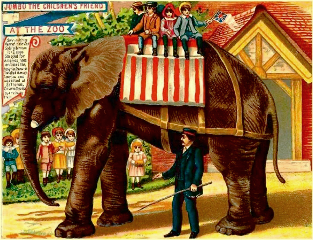 Jumbo the Children's Friend at the Zoo